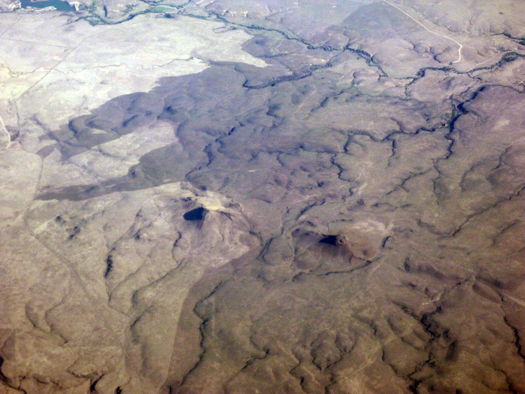 Oblique air photo of the Rabbit Ears Mountains, near Clayton, New Mexico. Facing north. 1 August 2011. Color/contrast enhanced in Photoshop.